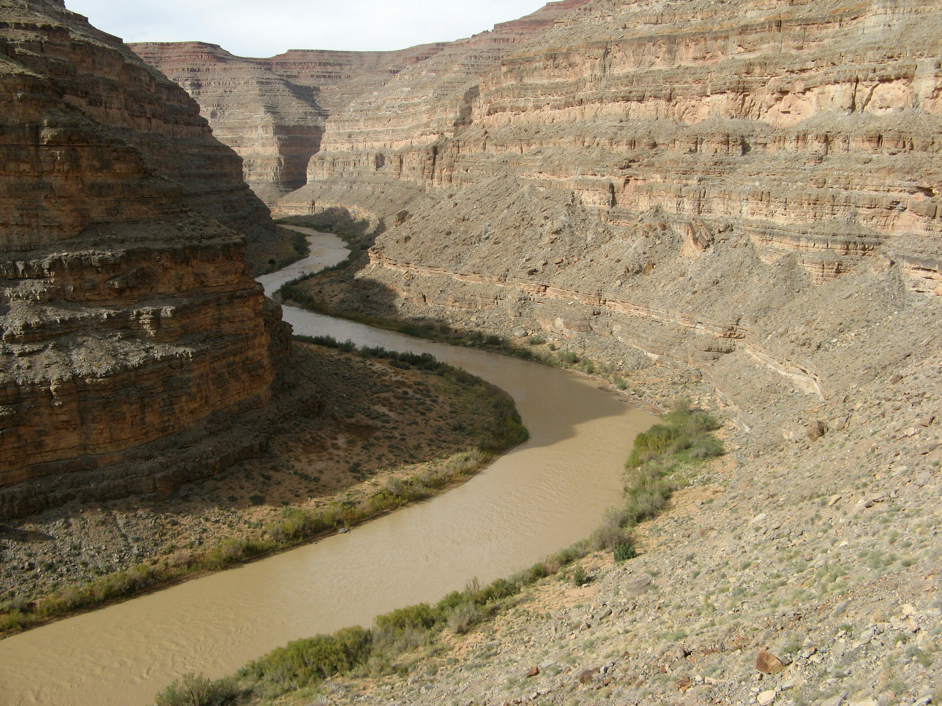 San Juan River near Honaker Trail, San Juan County, Utah, United States